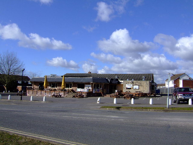 Bullnose Morris, Blackbird Leys.